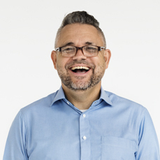 Evo Terra headshot taken in October 2016.